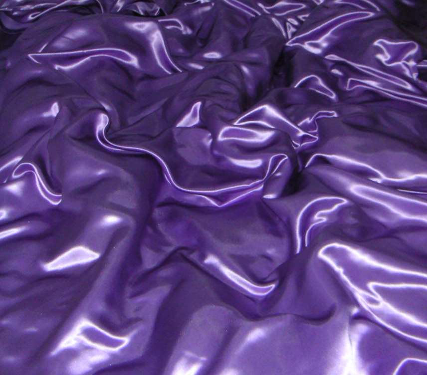 Purple satin bed sheets.